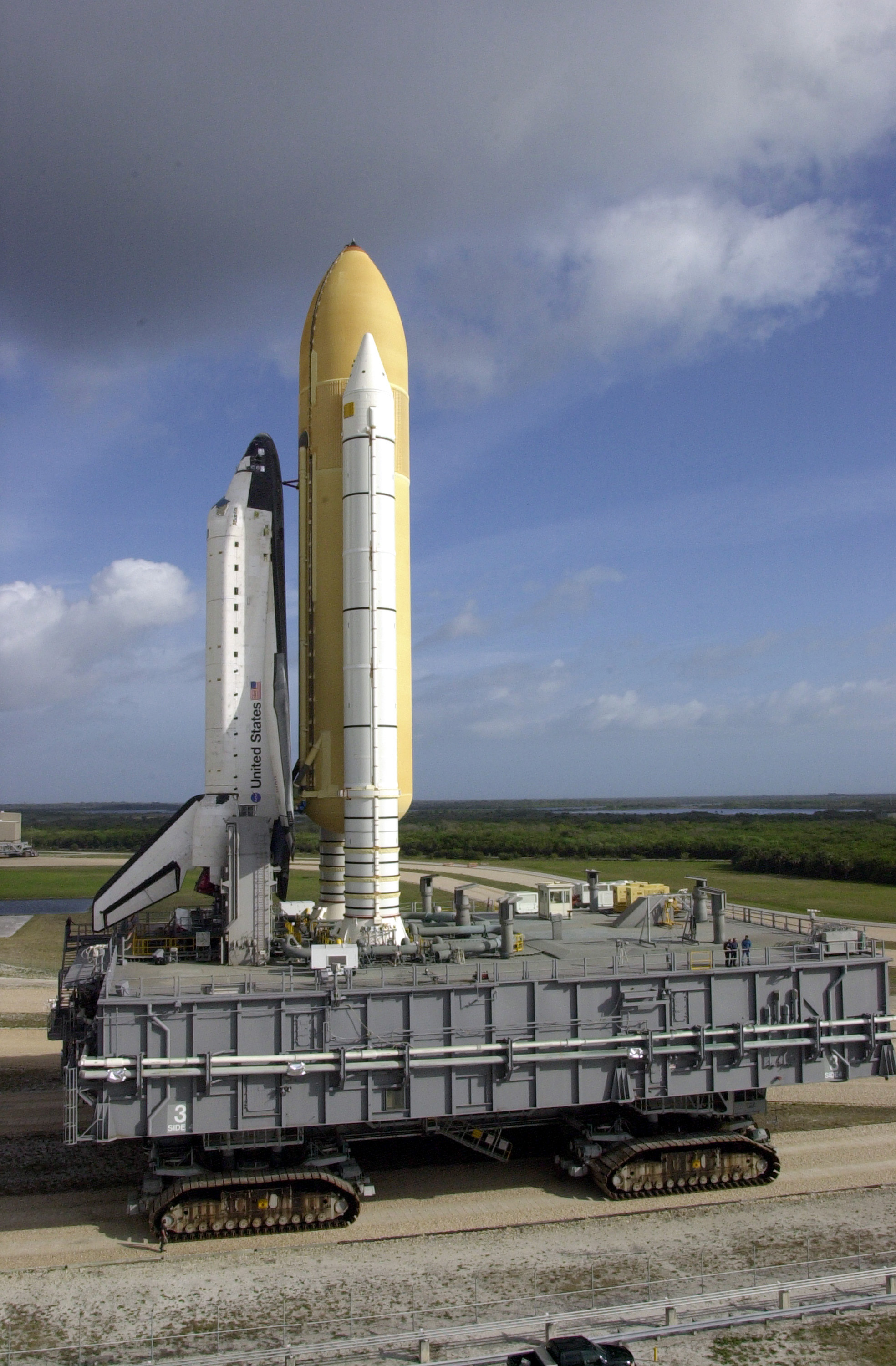 "KENNEDY SPACE CENTER, FLA. - Sitting atop the Mobile Launcher Platform, Space Shuttle Atlantis towers above the workers aboard. The Shuttle and MLP rest on top of the crawler-transporter beneath it, which moves about 1 mile per hour. Atlantis is scheduled for launch April 4 on mission STS-110, which will install the S0 truss, the framework that eventually will hold the power and cooling systems needed for future international research laboratories on the International Space Station. The Canadarm2 robotic arm will be used exclusively to hoist the 13-ton truss from the payload bay to the Station. The S0 truss will be the first major U.S. component launched to the Station since the addition of the Quest airlock in July 2001. The four spacewalks planned for the construction will all originate from the airlock. The mission will be Atlantis' 25th trip to space."